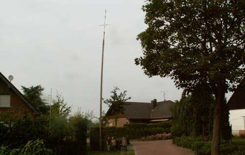 Hailcross Bienen (Rees)